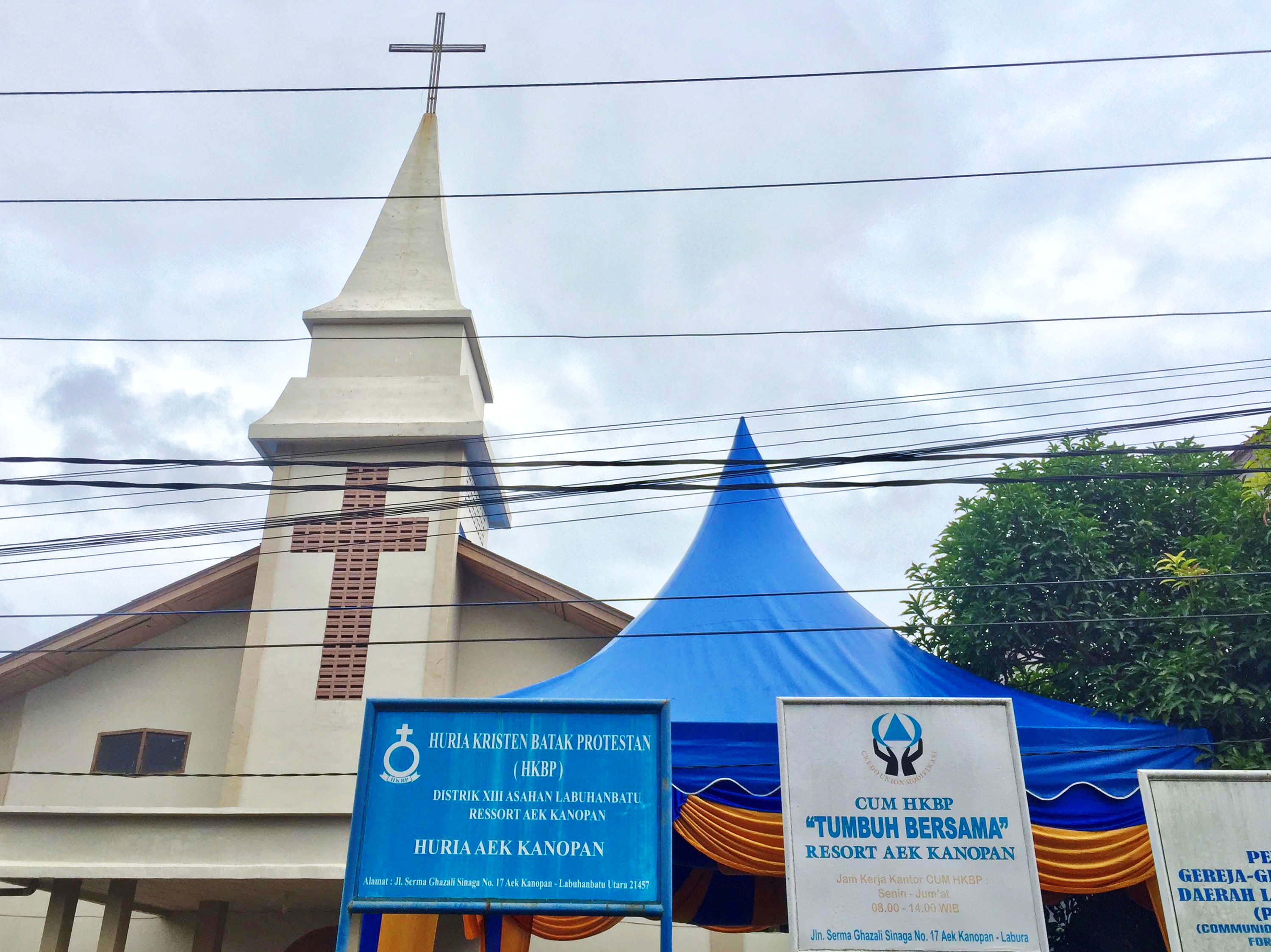 HKBP Aek Kanopan, Res. Aek Kanopan church in Aek Kanopan, Kualuh Hulu, North Labuhanbatu